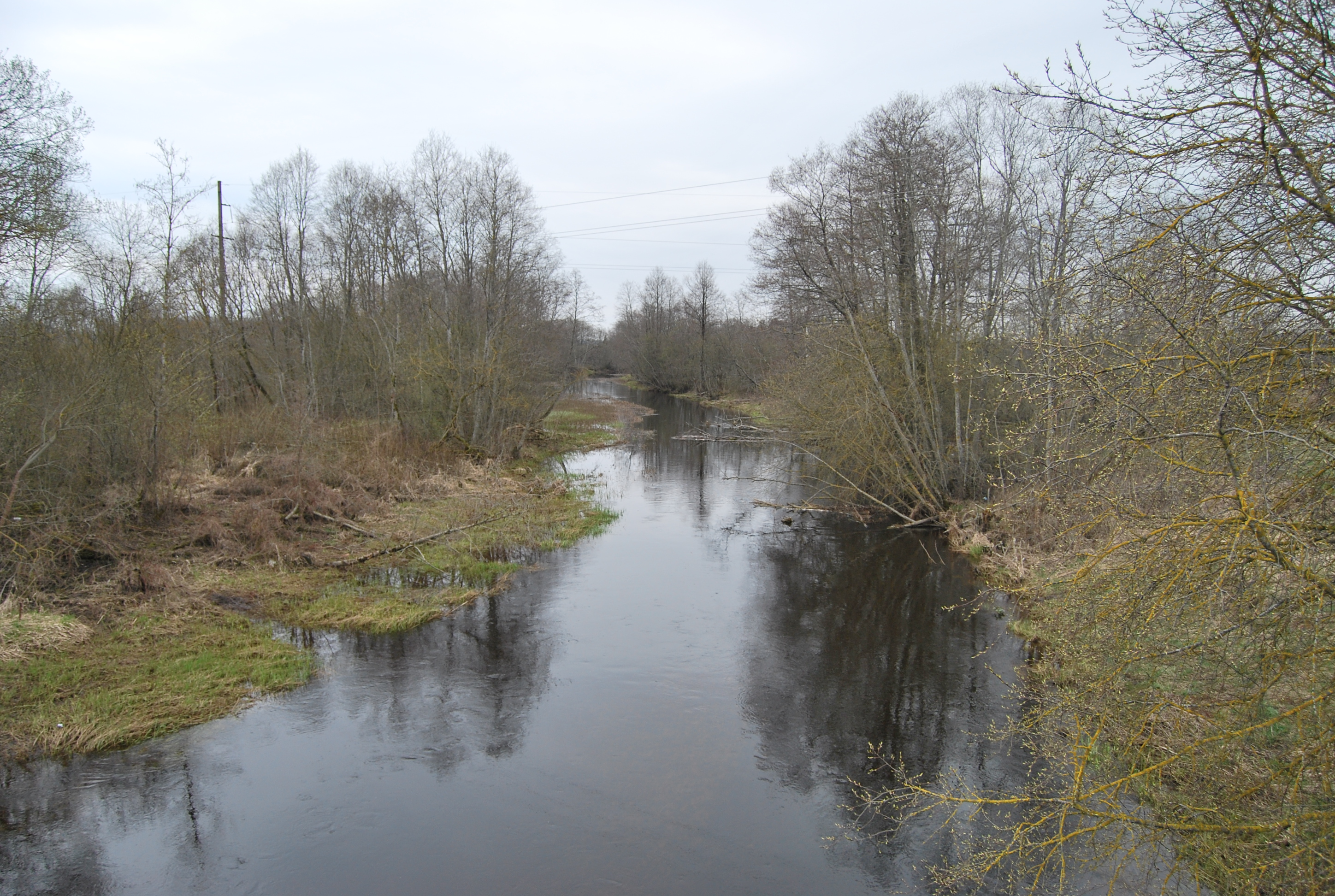 River Prandi, located in Järva County, Estonia.